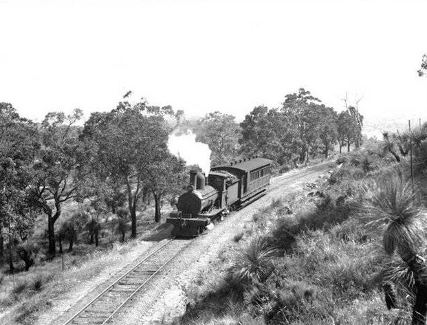 A three quarter view of a WAGR G class steam locomotive with an AD class carriage, on the Kalamunda Zig Zag section of the Upper Darling Range Railway, Gooseberry Hill National Park, Western Australia.